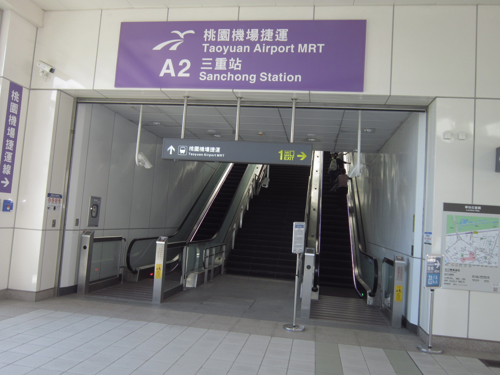 Airport_MRT_Sanchong_Station_Gate